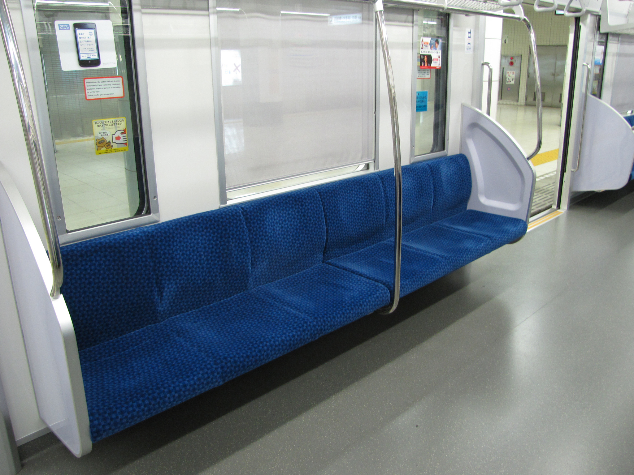 A 6-person seat on a Tokyo Metro 15000 series EMU (Car No. 15701)